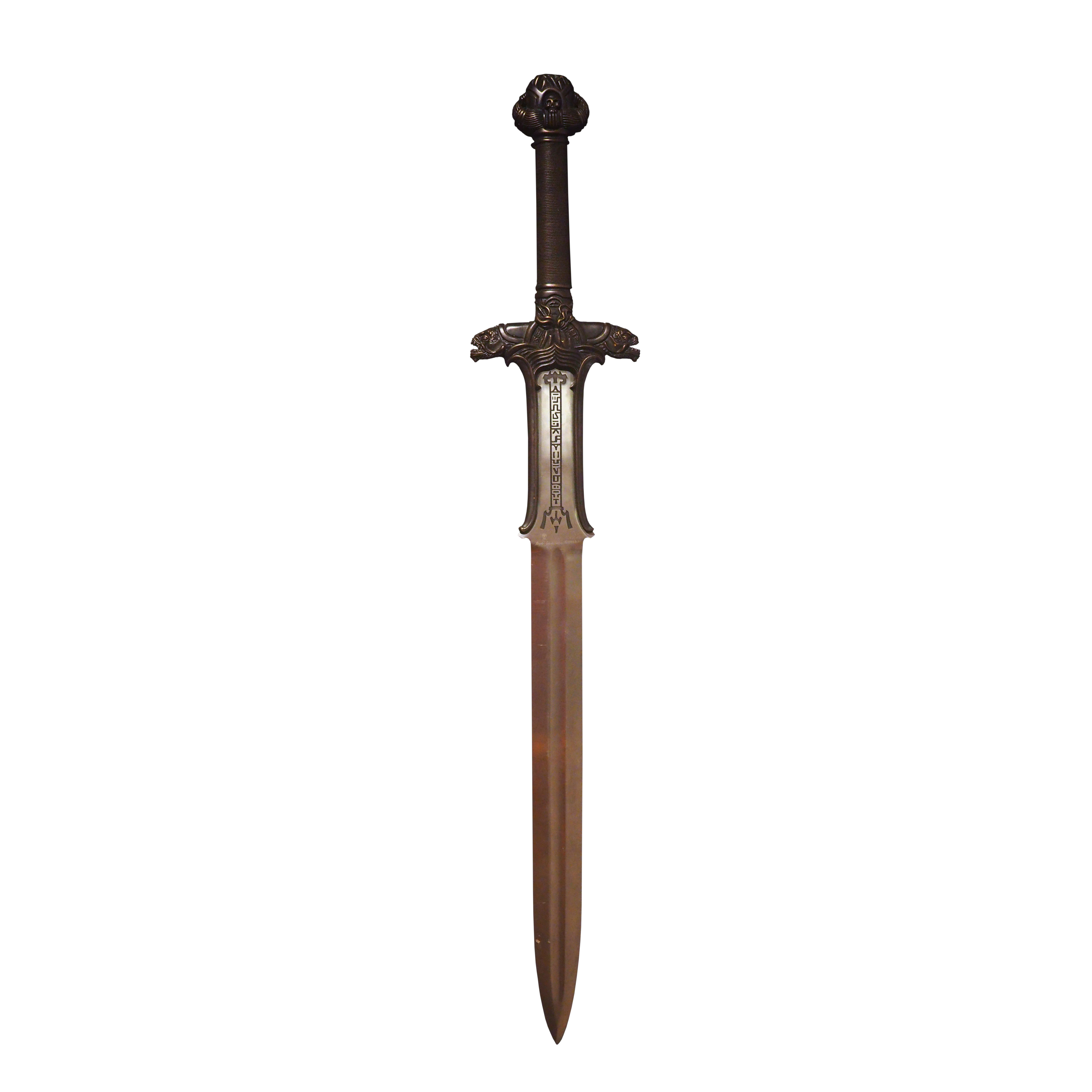 "Atlantean" sword of Conan The Barbarian, official copy by Marto.